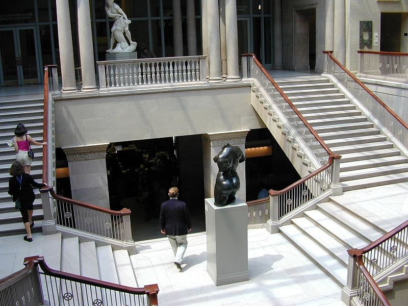 Illinois Institute of Art, Chicago, USA